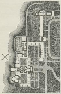 Garden plan. Pliny the Younger had three or four villas, of which the example near Laurentium is the best known from his descriptions.